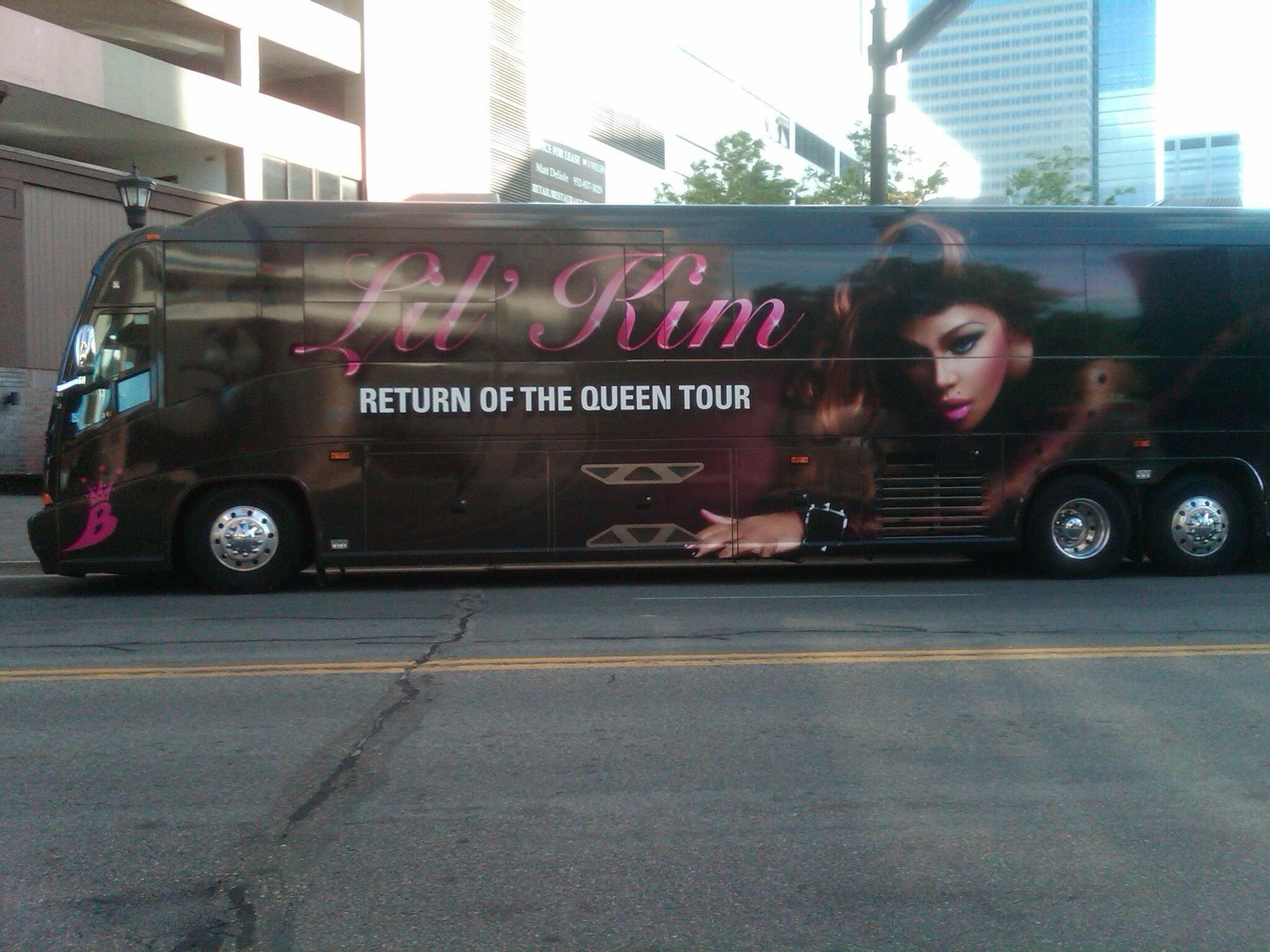 Lil' Kim's tour bus from her Return Of The Queen Tour